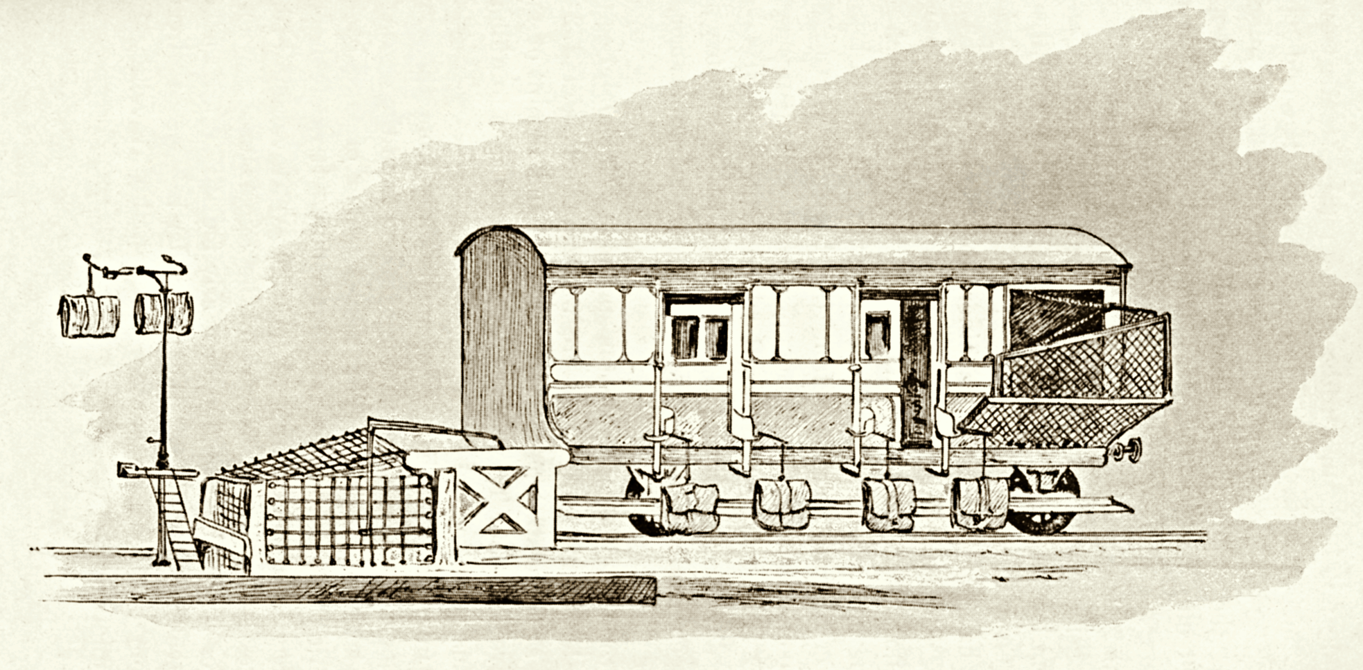 A diagram of a Travelling Post Office circa 1890, showing the equipment used for transferring the mail bags while the train is travelling at full speed.